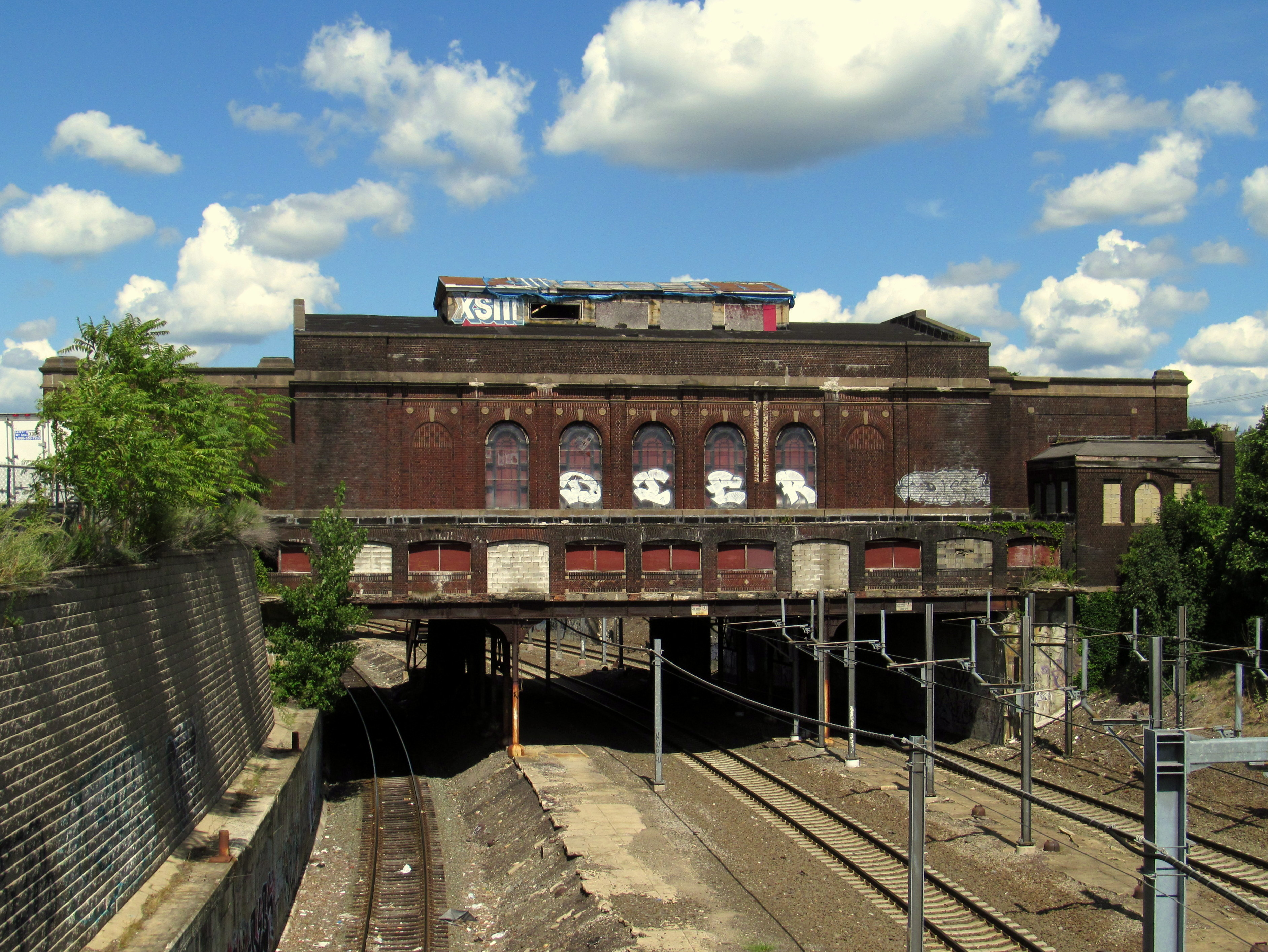 Pawtucket-Central Falls station viewed from the Barton Street bridge in August 2015